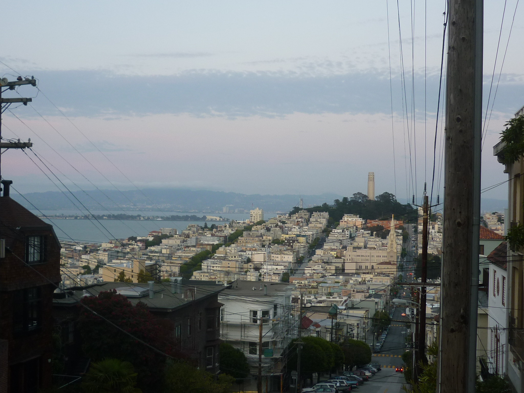 Telegraph Hill, San Francisco